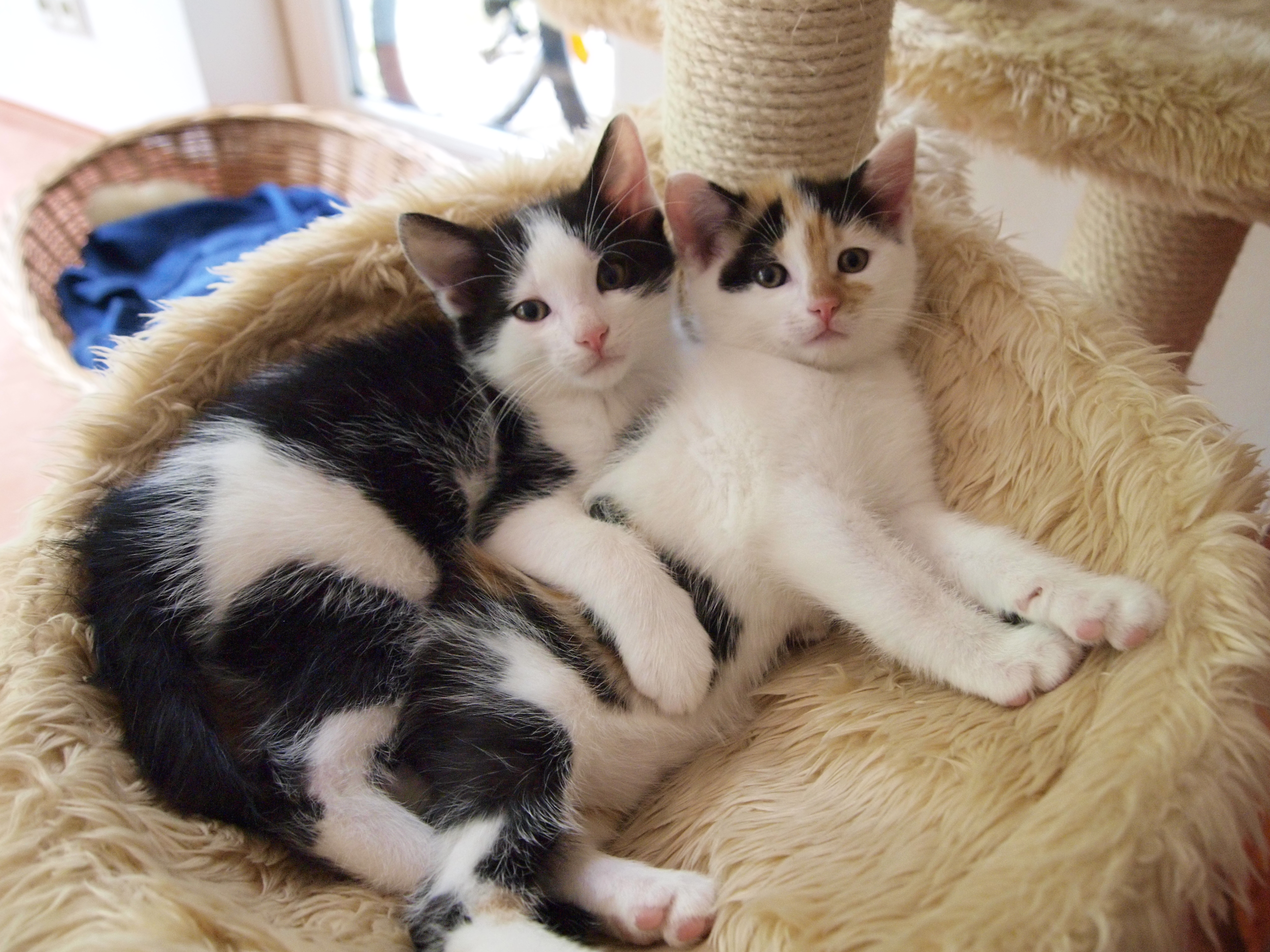 Two littermates (Felis silvestris catus) laying and cuddling.